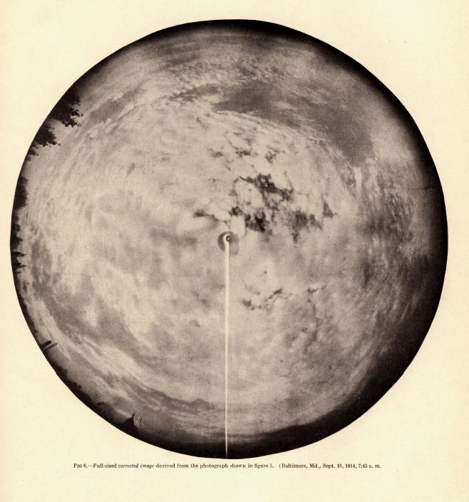 One of the first published pictures of the whole sky with the rotating whole sky camera. Baltimore Md. September 16, 1914. 7.45am